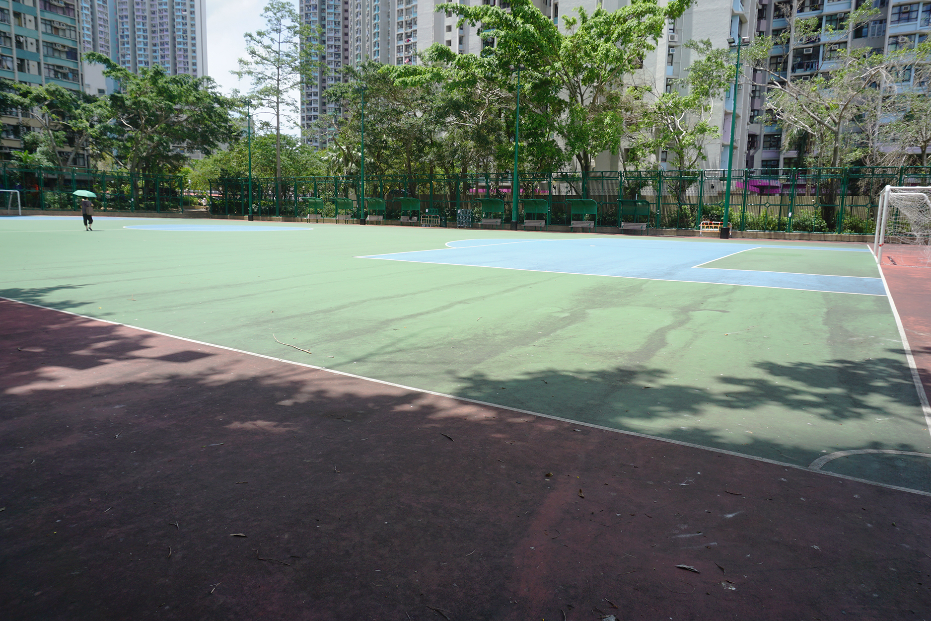 Tin Yiu Estate in Tin Shui Wai, Hong Kong.